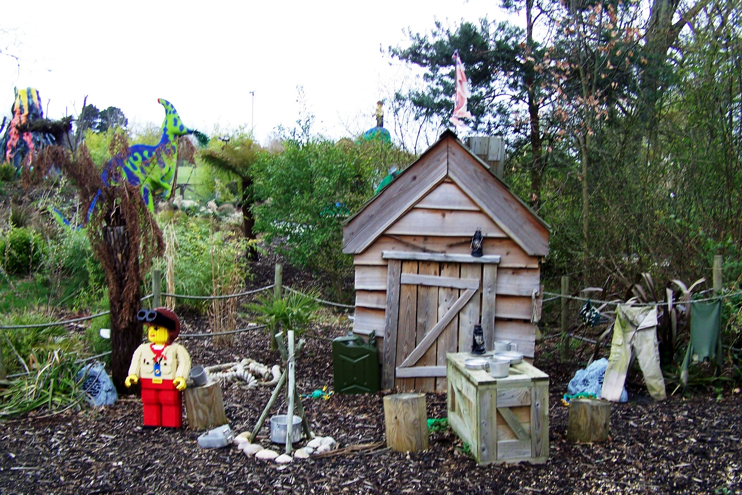 Dino Safari, Legoland Windsor, England: Pippin Reed/Gail Storm